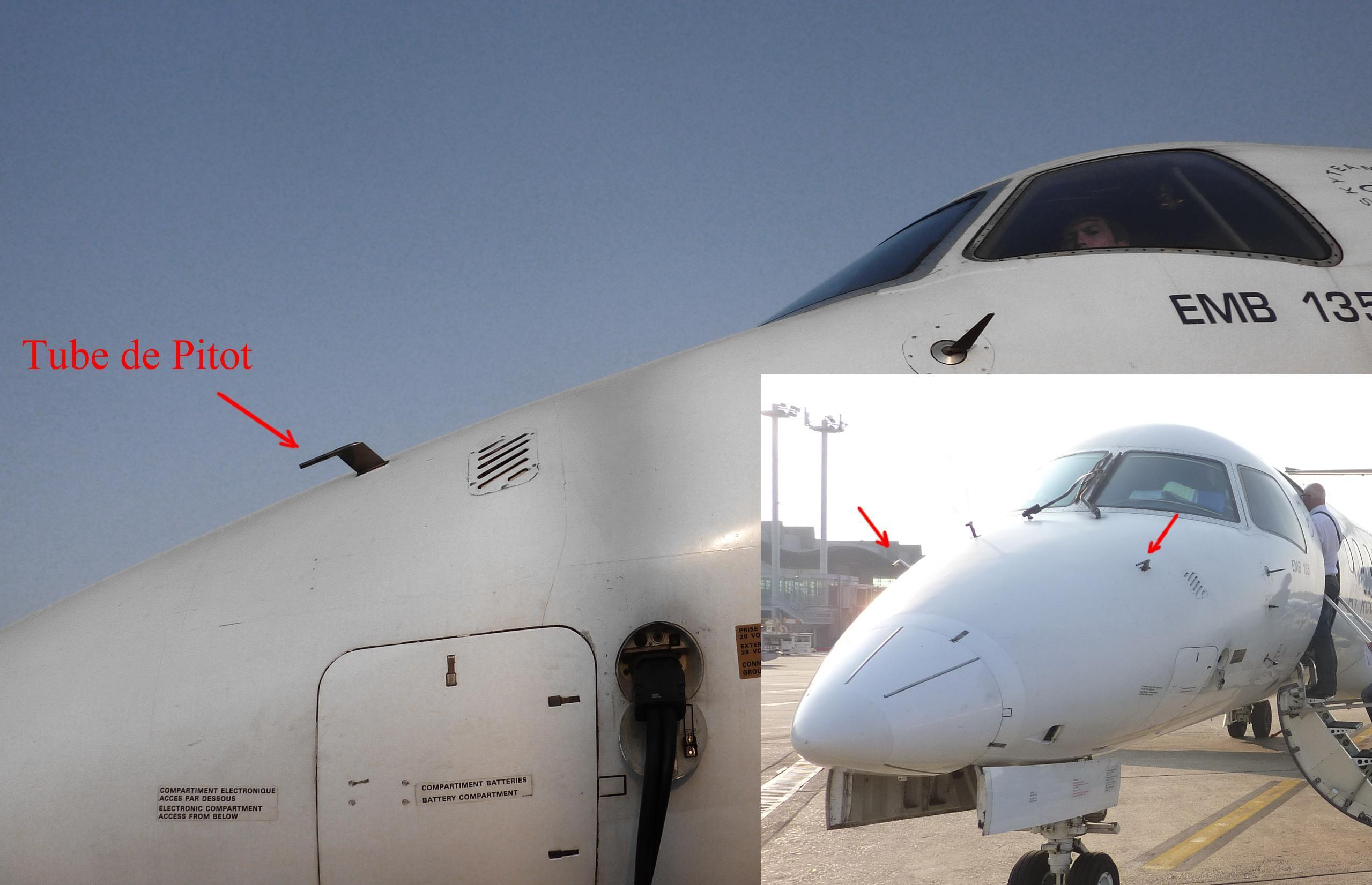 Pitot tube, on the nose